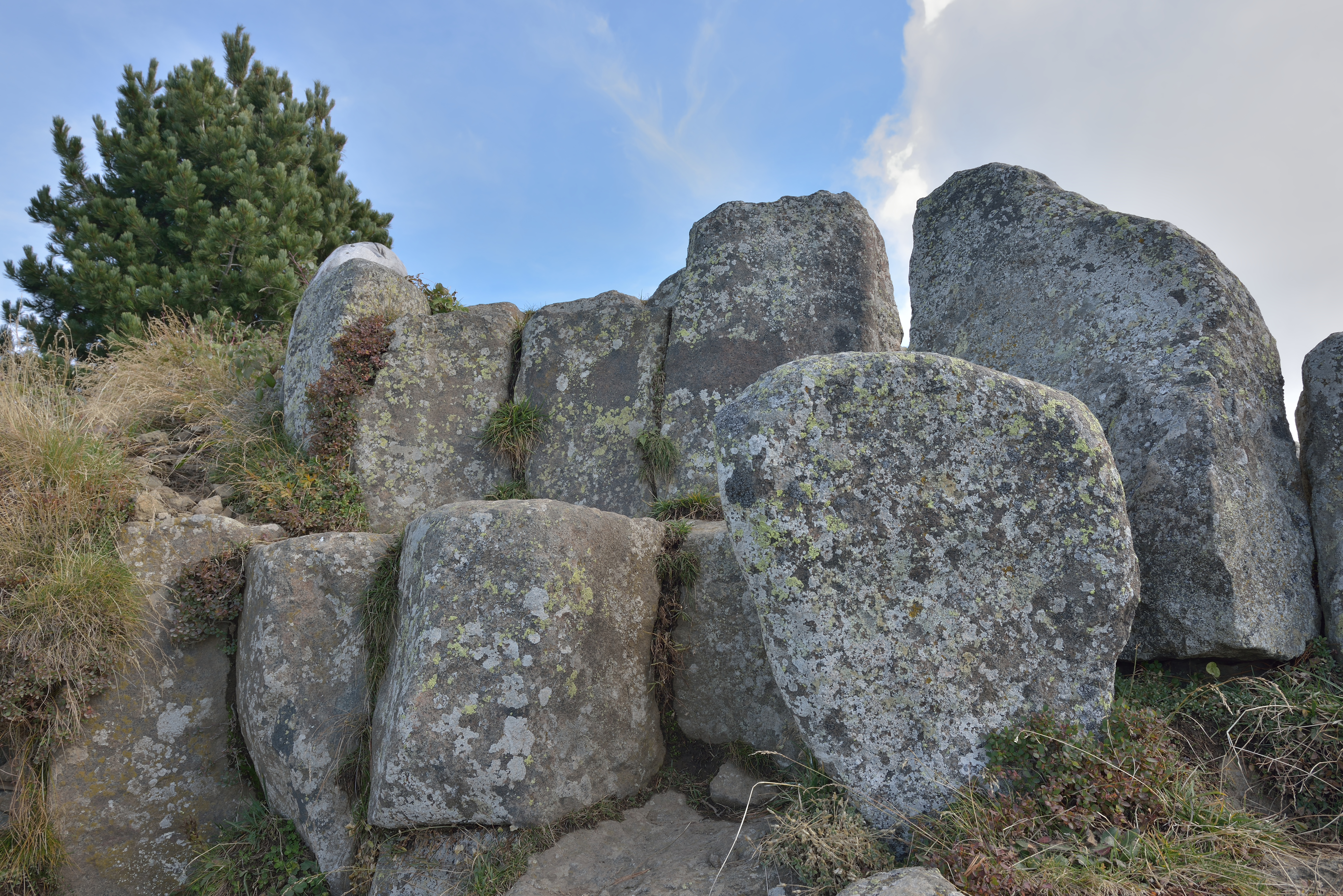 "Seat of whiches" (columnar basalt) on the mountain Puflatsch in Kastelruth